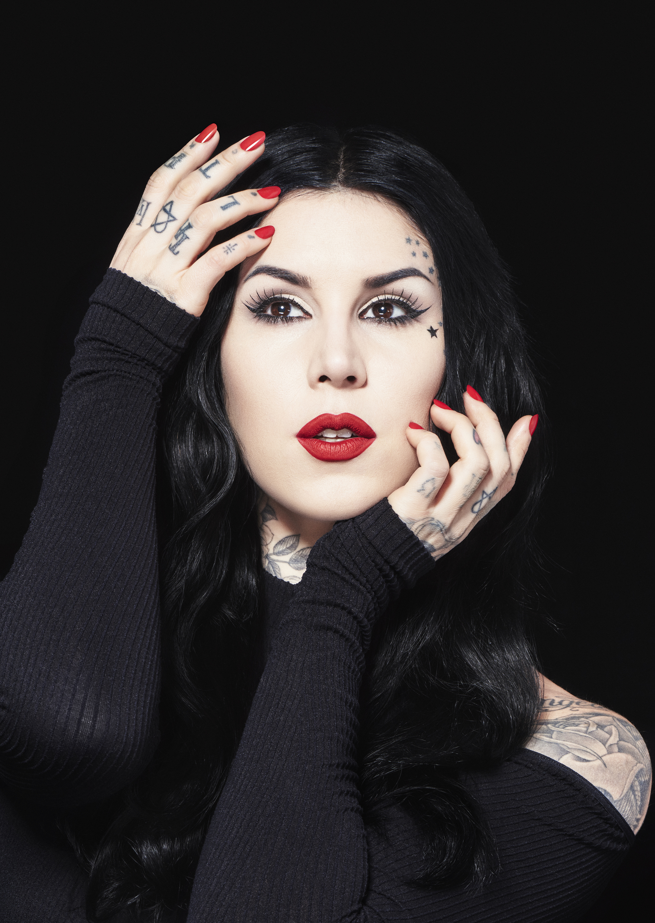 A 2016 photo of American tattoo artist, television personality, model and musician Kat Von D.